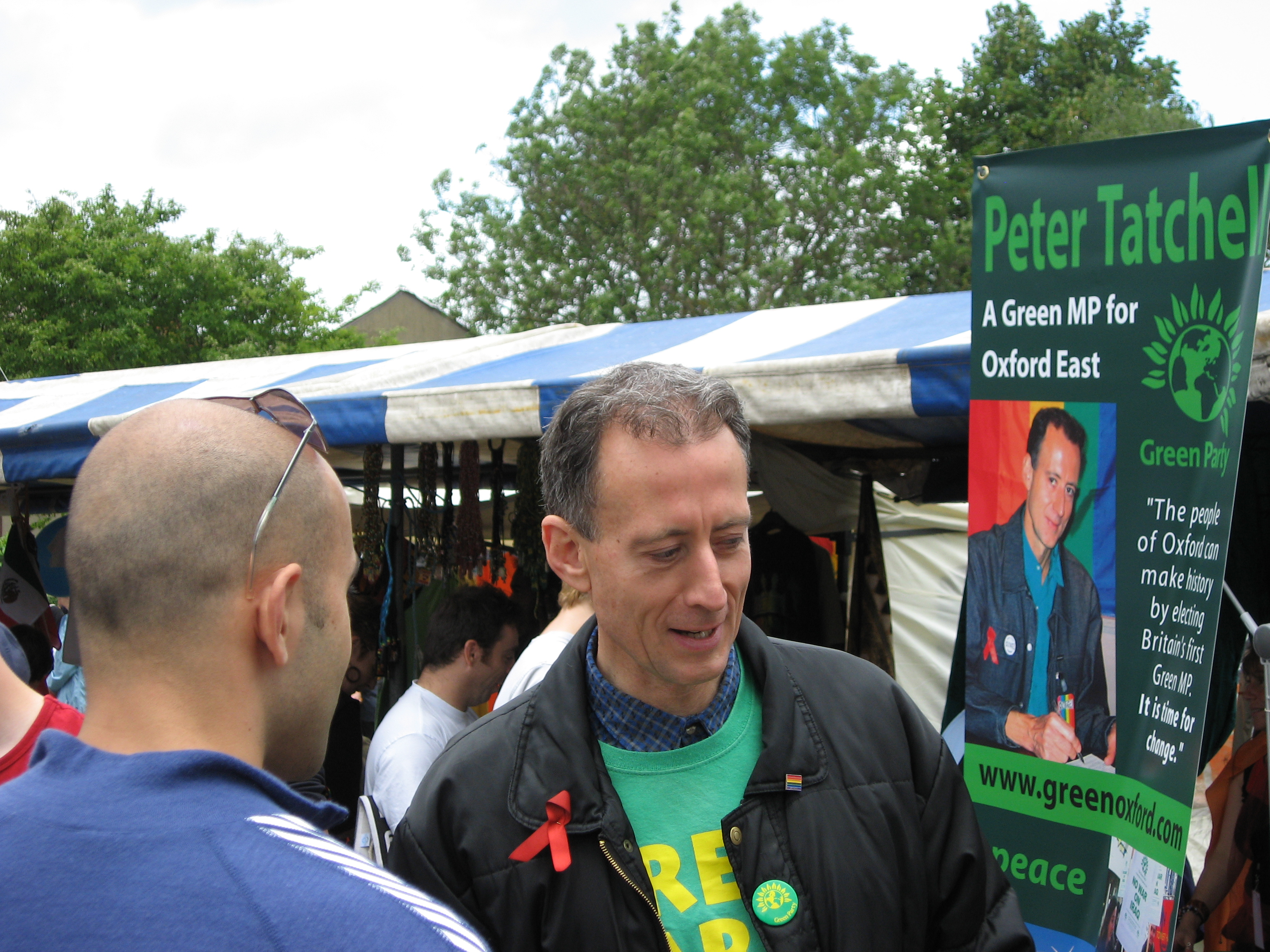 Peter Tatchell at the Cowley Road Carnival